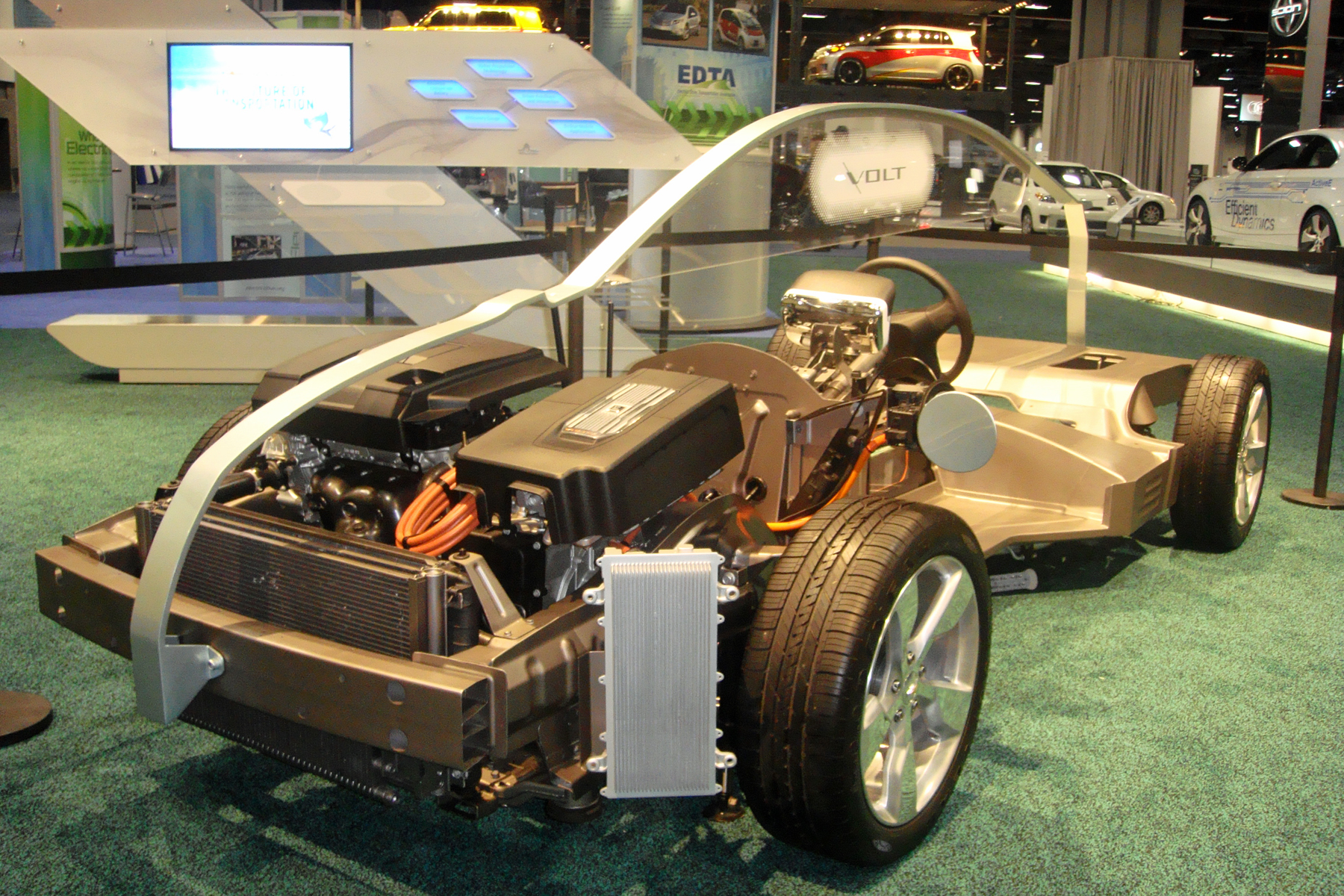 Chevrolet Volt drivetrain cut-away at the 2010 Washington Auto Show